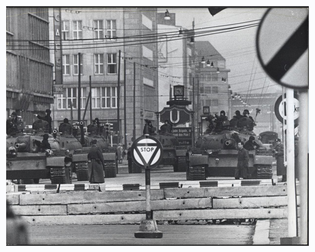 Oct. 28, 1961. Soviet tanks near Checkpoint Charlie sit about 500 feet from the border with West Berlin. From the booklet "A City Torn Apart: Building of the Berlin Wall." For more information, visit CIA's Historical Collections webpage (